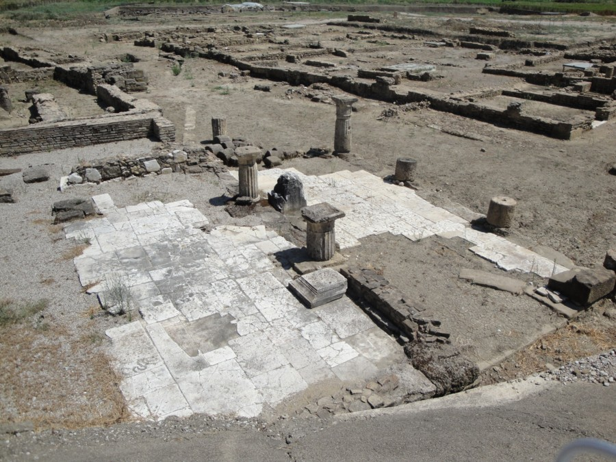 A view of the ancient city of Elis